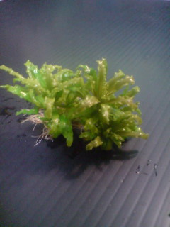 Pogostemon helferi 水草の一種。It is use in aquarium. This cutivated to farm at TropicaAquariumPlant. It species came Thailand originally. but at first cultivated was Denmark. It is one's private property.Take a photograph in my home. photo:S.Tanaka